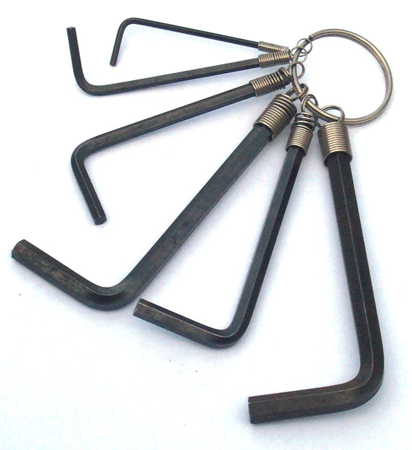 A bunch of allen keys on a ring.